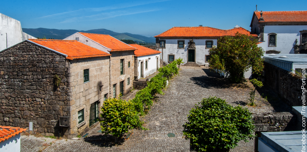 Castle of Vila Nova de Cerveira